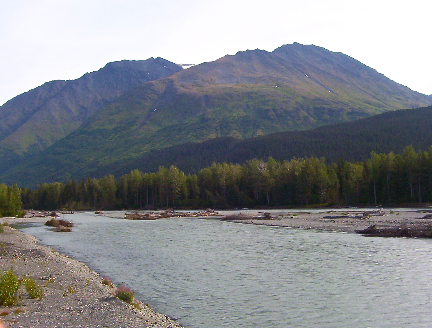 Snow River, Alaska Licensing Category:Images of Alaska